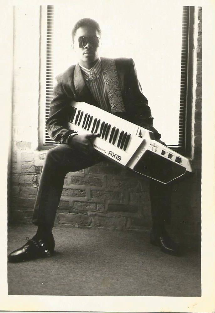 Chip E. with a Roland Axix MIDI Controller, circa 1986